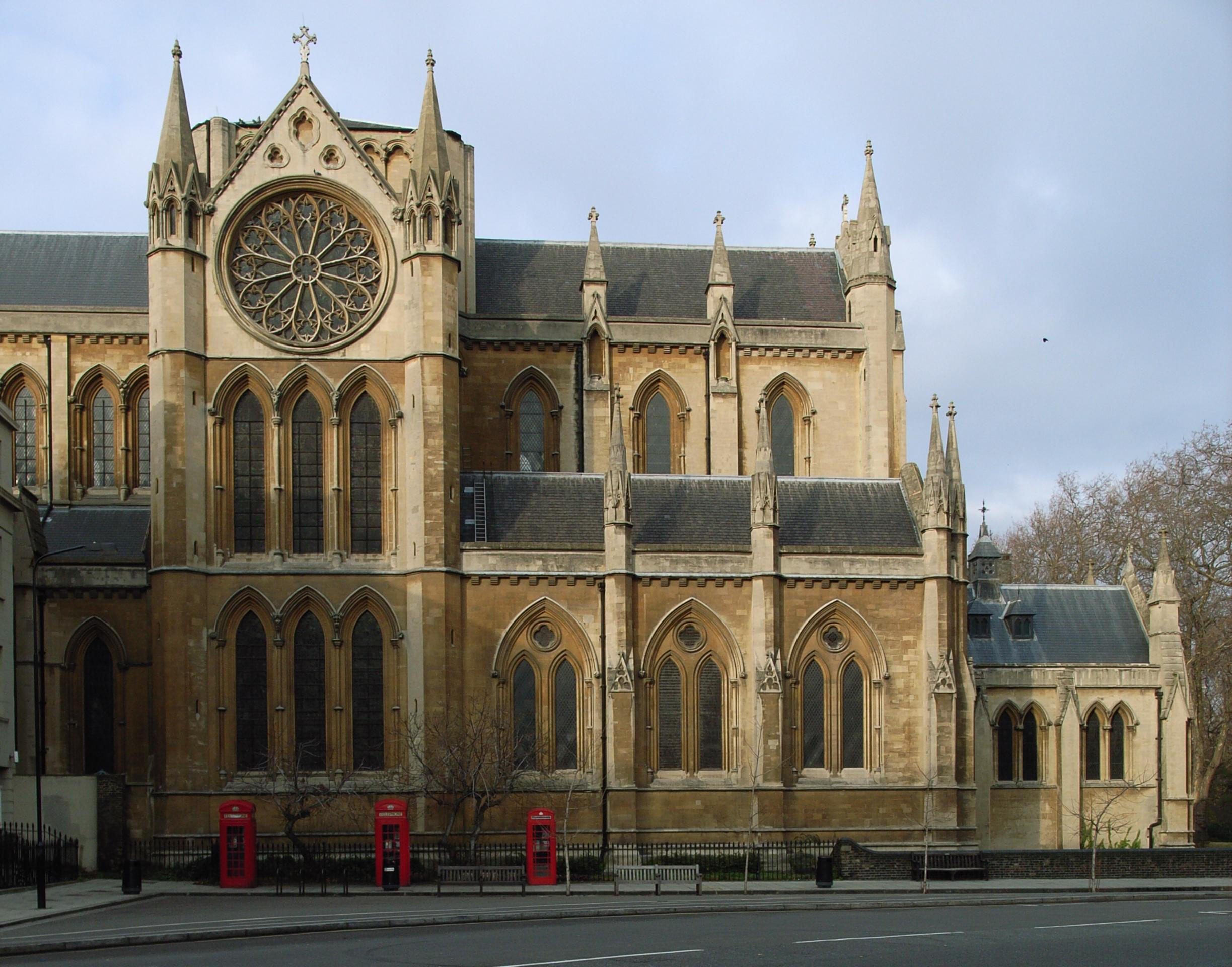 Image taken by:Steve Cadman Description:Church of Christ the King, London, England.